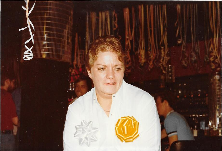 CRHC.LGBTQ.152f. Wearing bows on her shirt